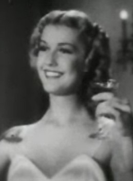 Cropped screenshot of Anita Louise from the trailer for the film Tovarich.